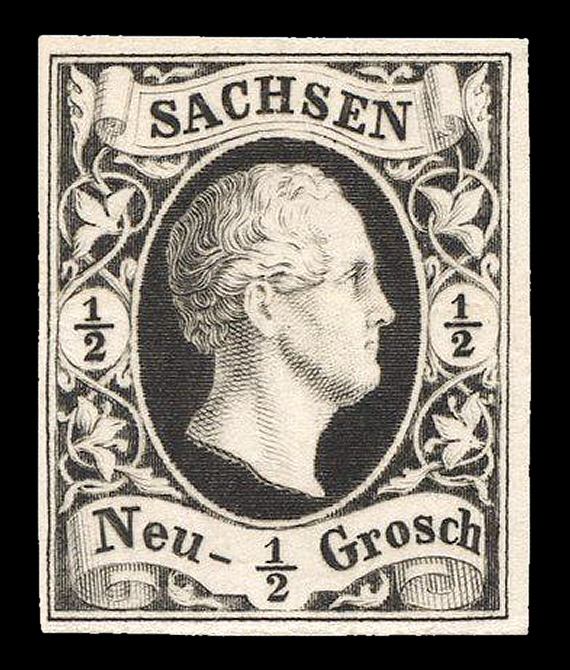 Black on grey paper, portrait of King Frederick Augustus II of Saxony (1797-1854) Graphics by Ulbricht Ausgabepreis: 1/2 NeuGroschen Michel-Katalog-Nr: 3 (Sachsen)